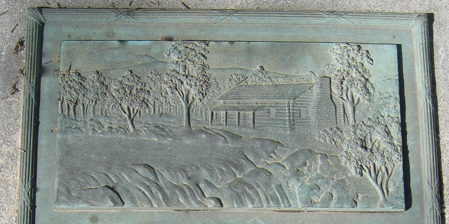 "Great Plains," the home of Richard Pearis, one of the first European settlers in Upstate South Carolina cropped from a historical marker in Greenville, South Carolina, near the original location of the house.